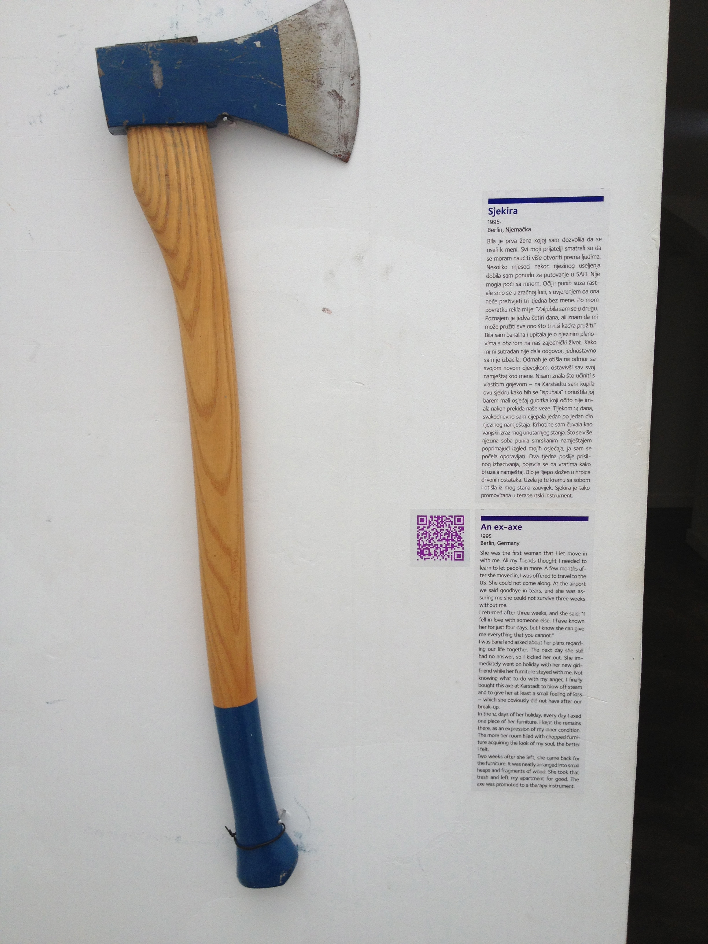 "An ex-axe", an exhibit in the Museum of Broken Relationships, Zagreb, Croatia